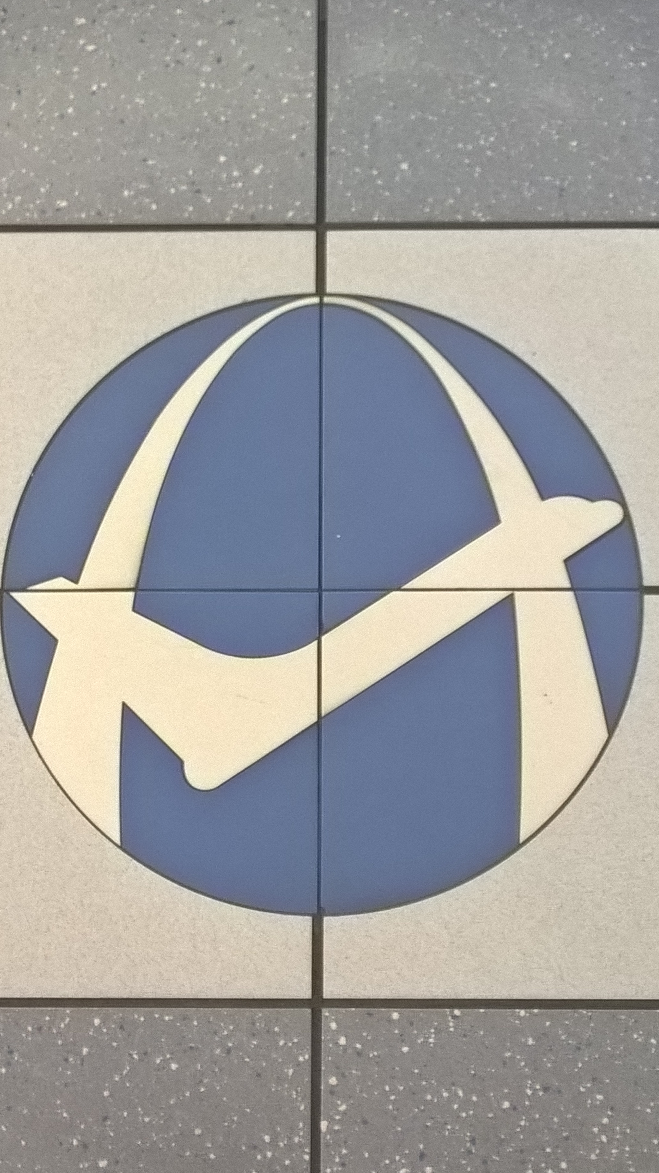 A mosaic in the floor on the Baggage Claim level of T1 at Lambert-St. Louis.